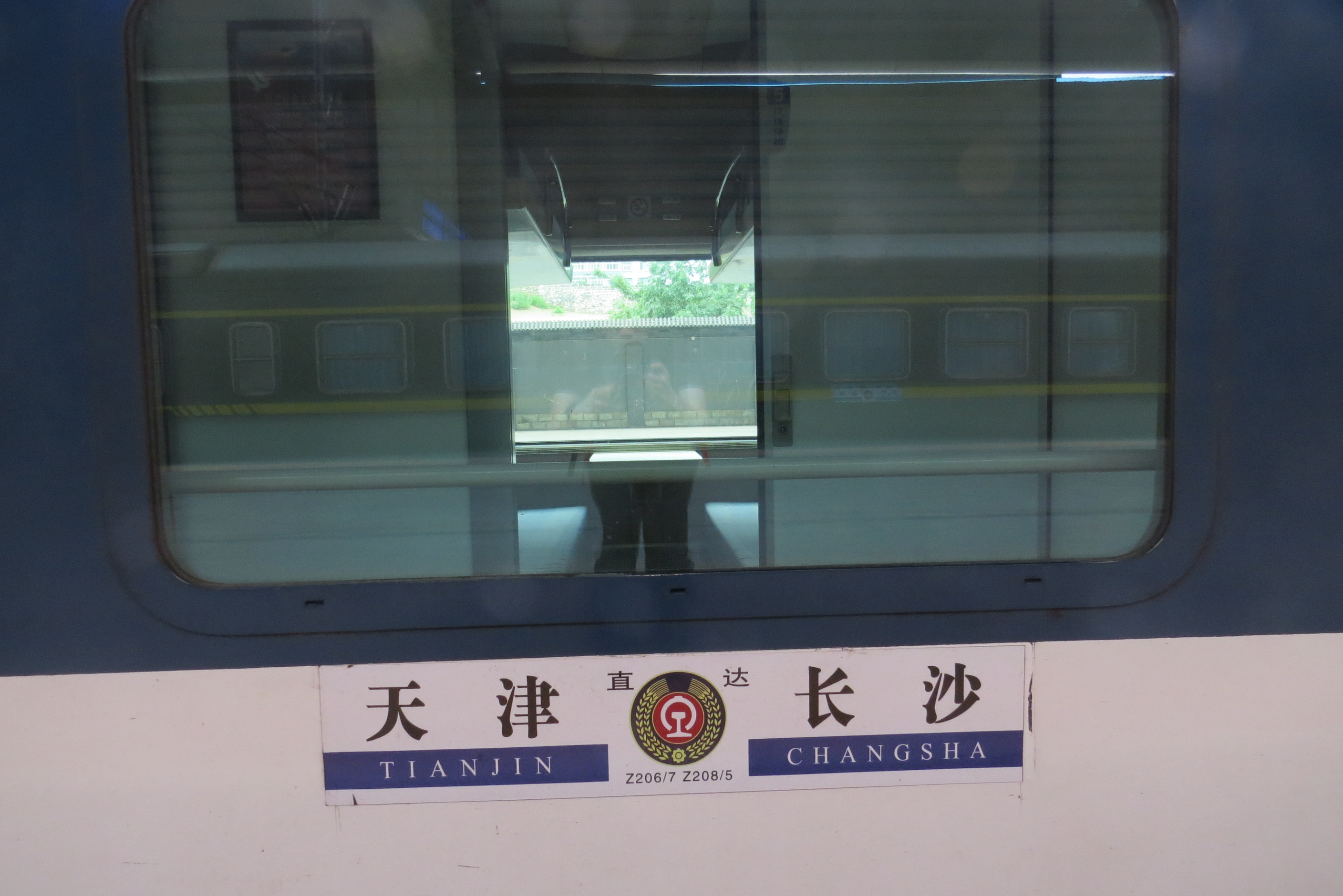 Z17 after extension to Tianjin.